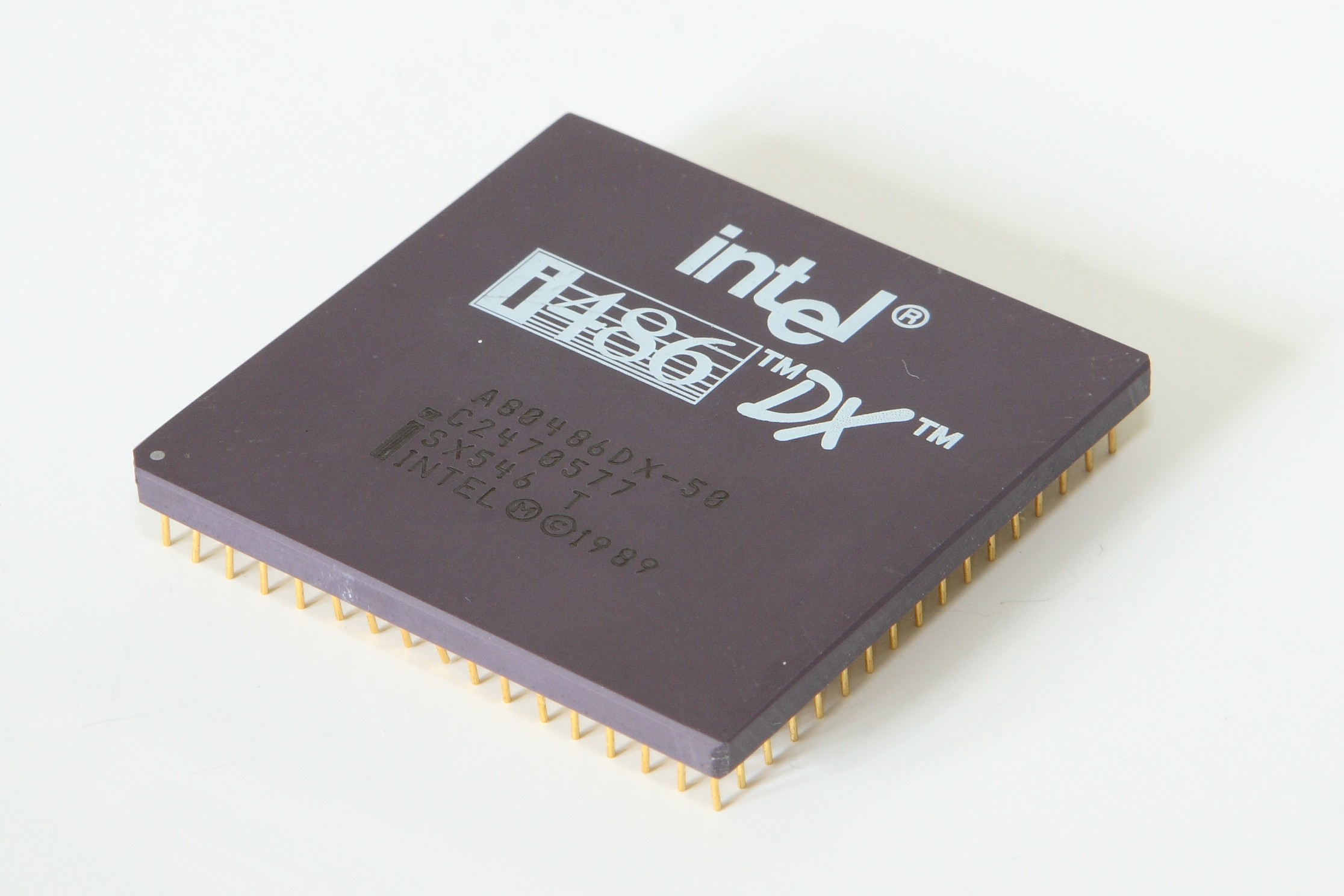 Intel i486 DX 50MHz Camera data Camera Canon EOS 30D Lens Canon EF 24-70 mm 2.8 L USM Focal length 70 mm Aperture f/19 Exposure time 15 s Sensivity ISO 100 Image Editing Programs Canon Digital Photo Professional